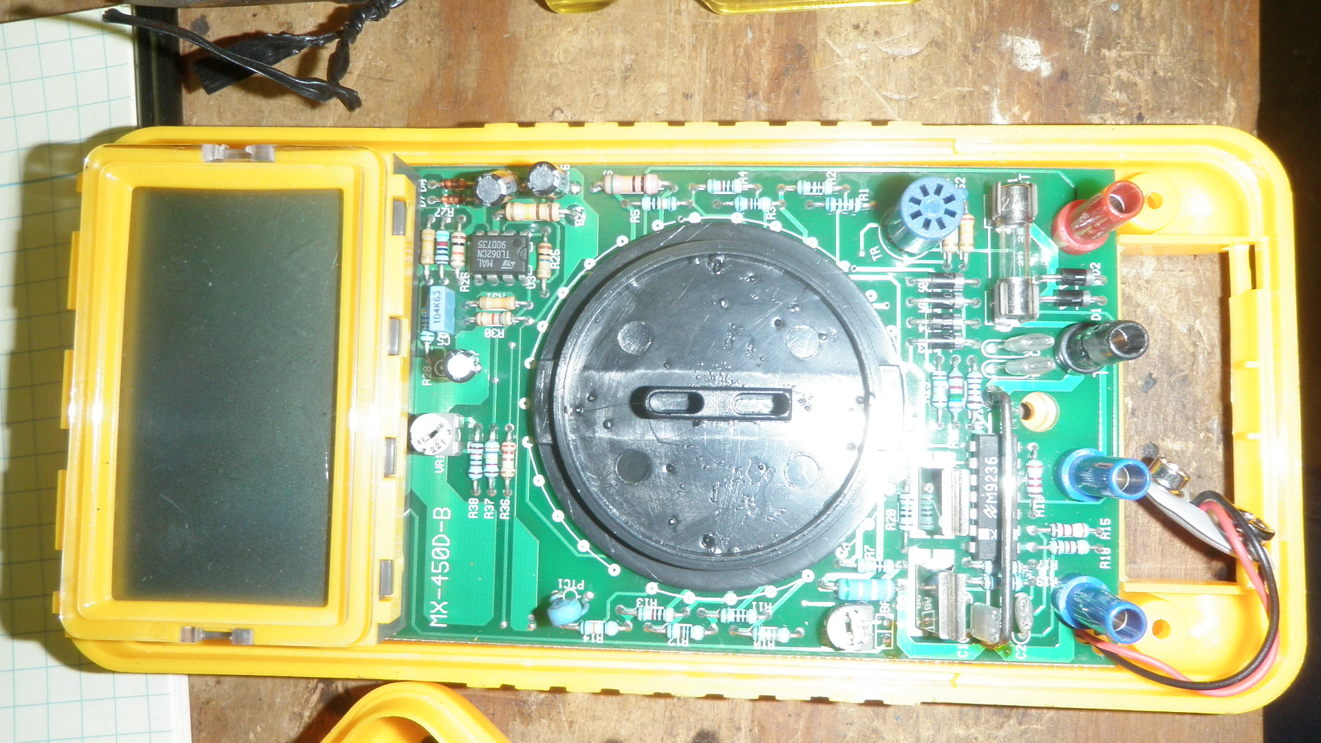 The top cover of a digital multimeter is removed to show the internal parts, including the fuse, lead jacks, and switch disc.